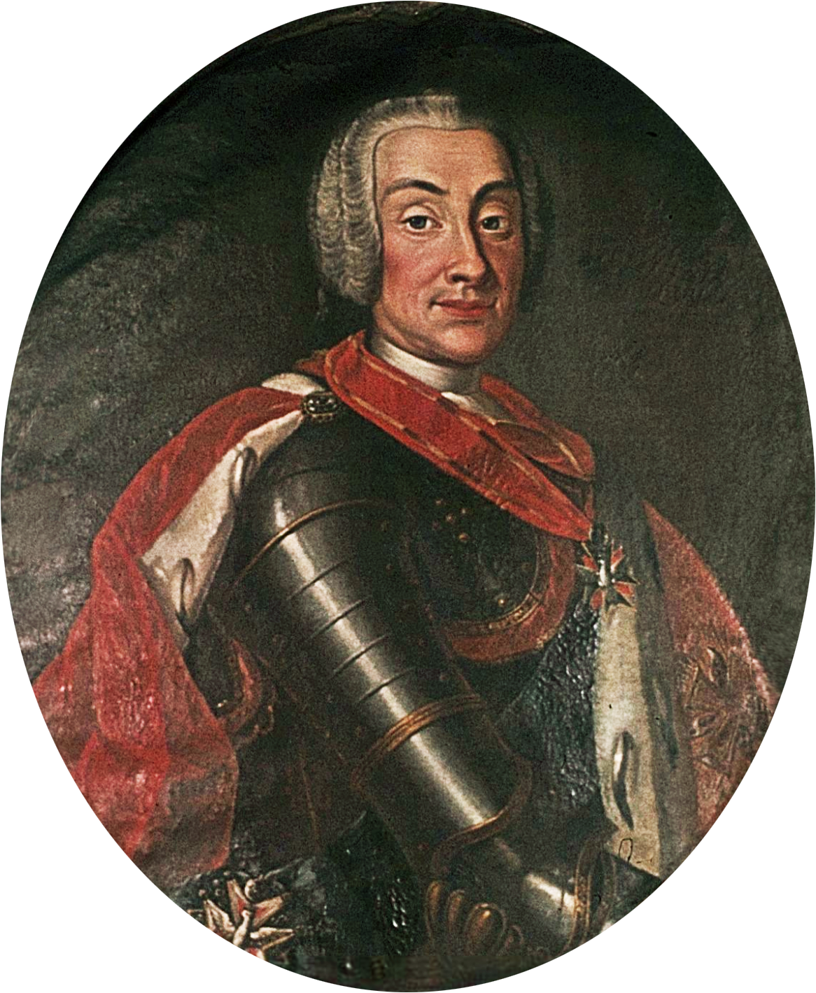 Portrait Ernst August I. von Sachsen-Weimar-Eisenach Standort:Eisenach, Ehemaliges Stadtschloß, Festsaal